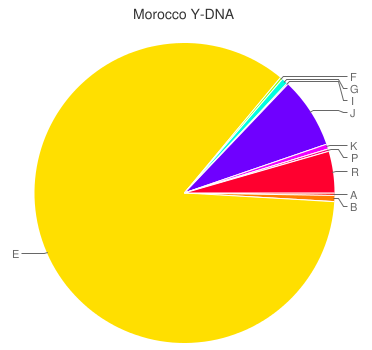 Distribution of Y-chromosome DNA (Y-DNA) haplogroups in Morocco according to Bekada et al. 2013.